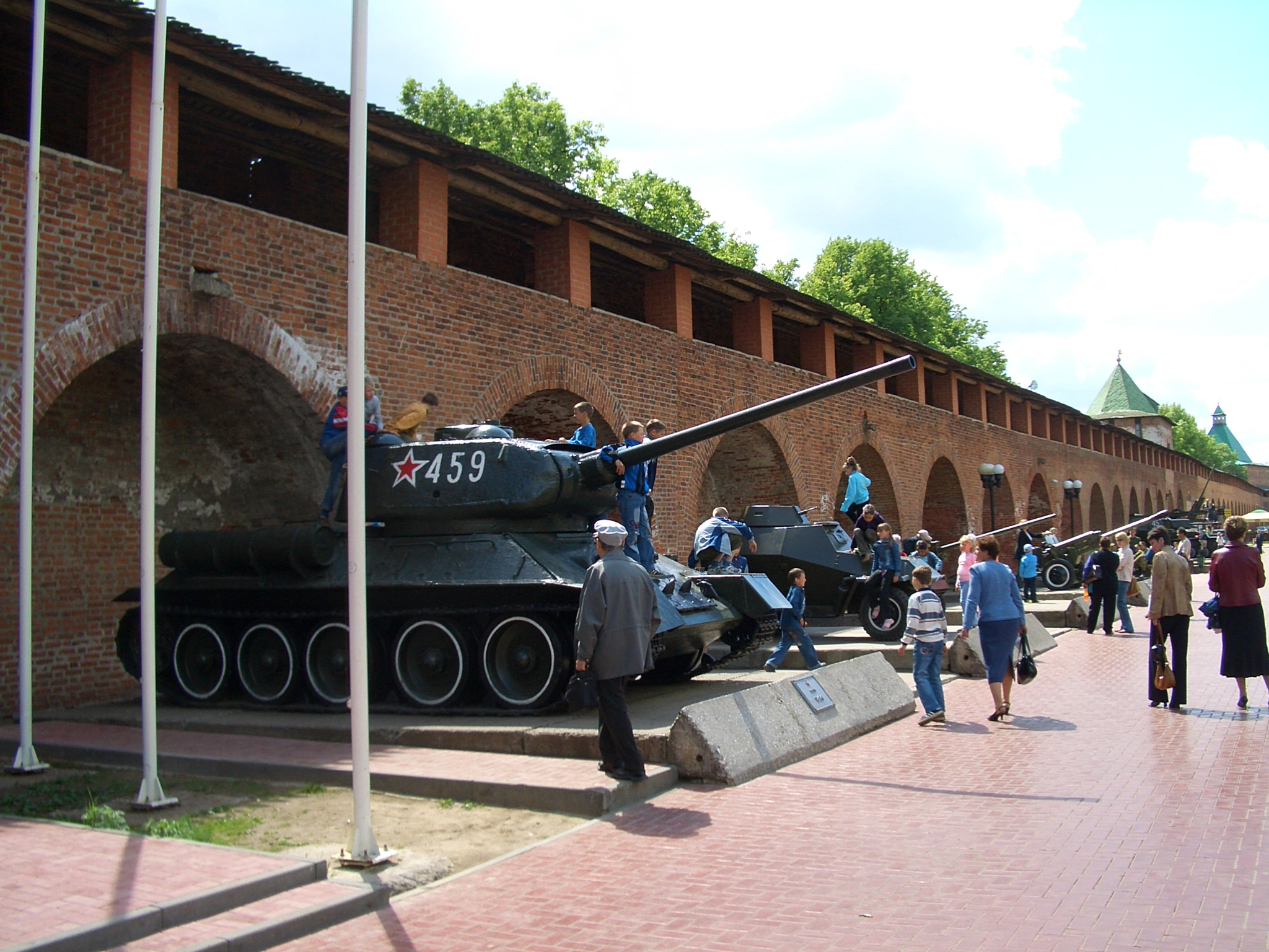 WWII era products of local factories (T-34 tank, guns, etc) on display in Nizhny Novgorod Kremlin